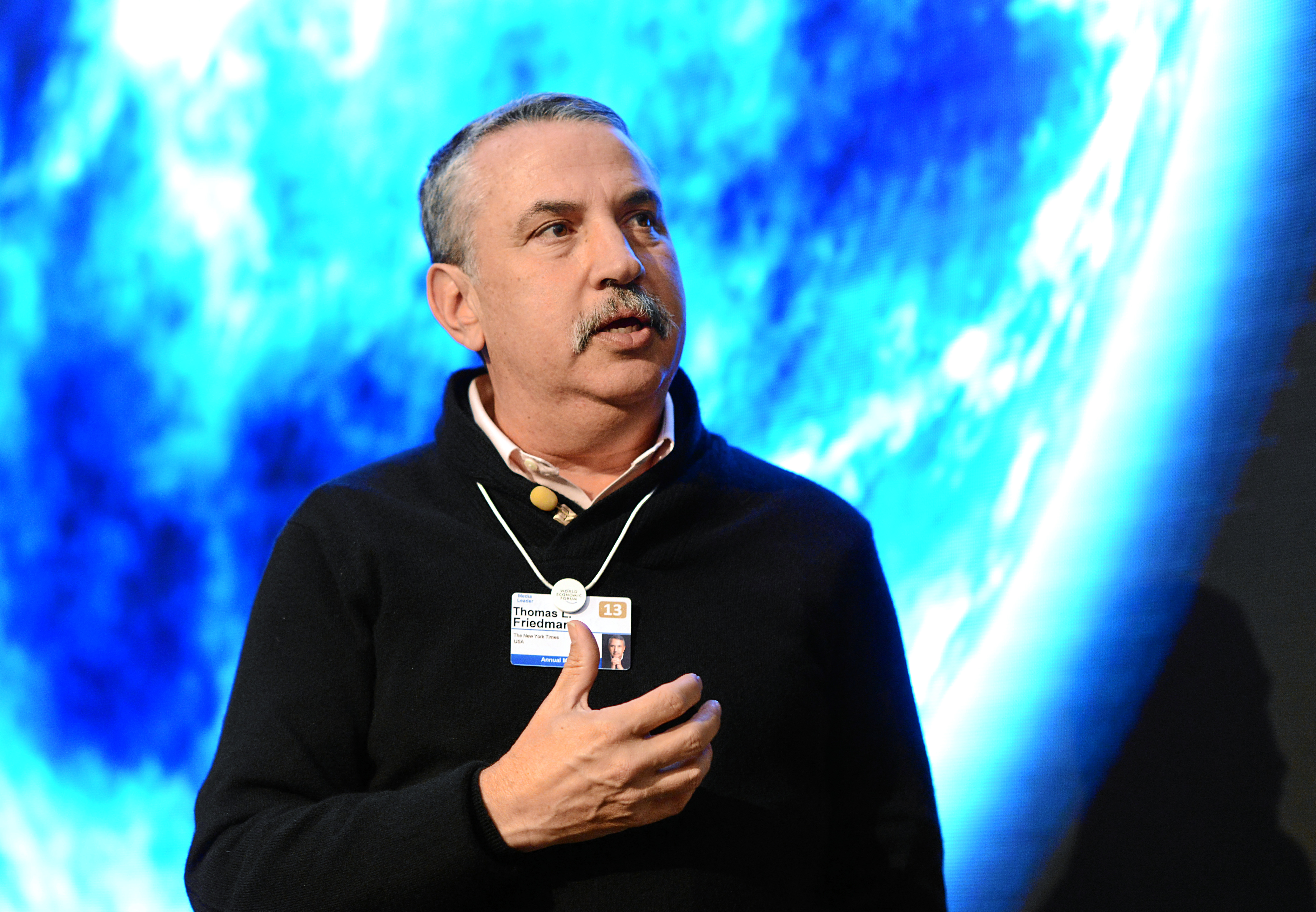 DAVOS/SWITZERLAND, 24JAN13 - Thomas L. Friedman, Columnist, Foreign Affairs, The New York Times, USA moderates the session 'Tipping Points - Reinforcing Critical Systems' at the Annual Meeting 2013 of the World Economic Forum in Davos, Switzerland, January 24, 2013.. . Copyright by World Economic Forum. . Michael Wuertemberg